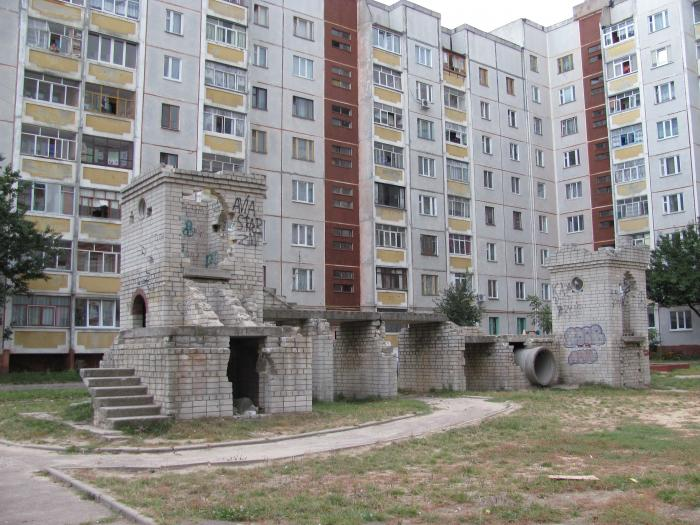 From my Wikimapia account